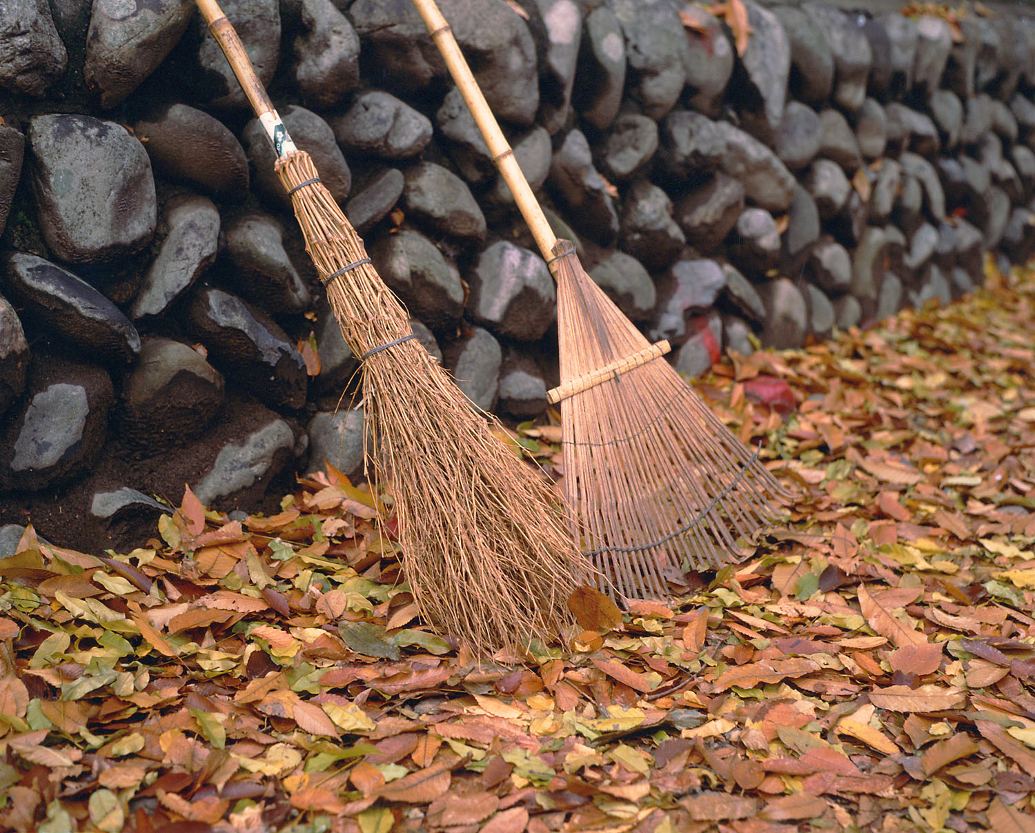 A besom broom (left) and a leaf rake (right) in Japan.